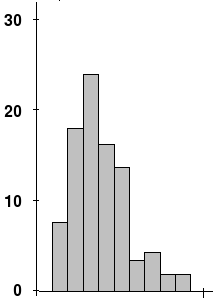 Skewed distribution of the gravitropic response in wheat coleoptiles